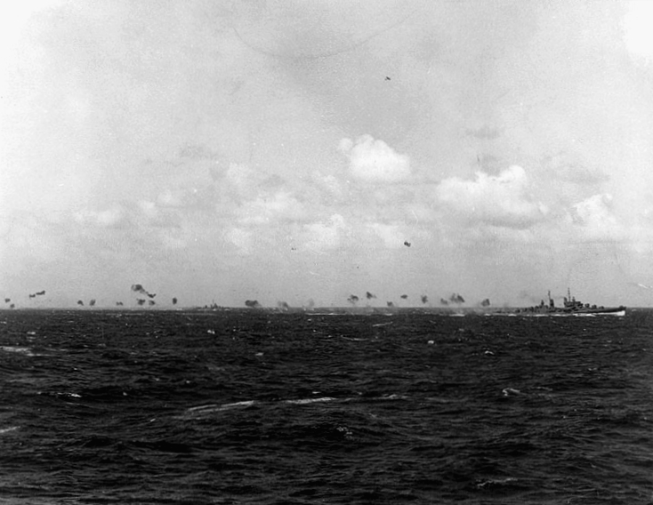 The U.S. Navy light cruiser USS Oakland (CL-95), at right, and a destroyer firing on Japanese planes attacking Task Force 50 near the Marshall Islands, 4 December 1943. Two of the planes are visible, one in the photo's center and the other near the top.